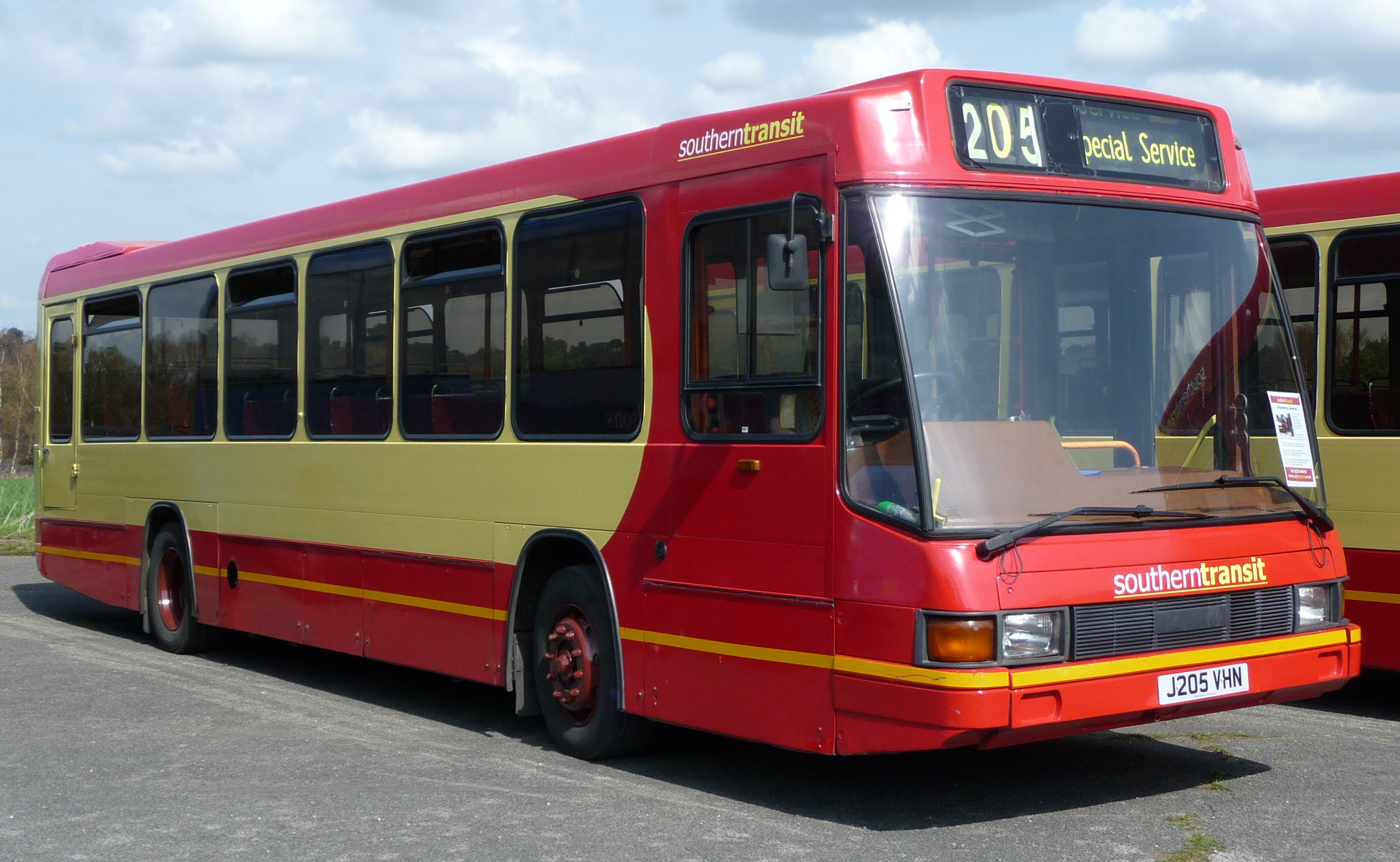 Southern Transit's J205 VHN, a DAF SB220/Optare Delta, at the 2009 Cobham bus rally at Wisley Airfield.